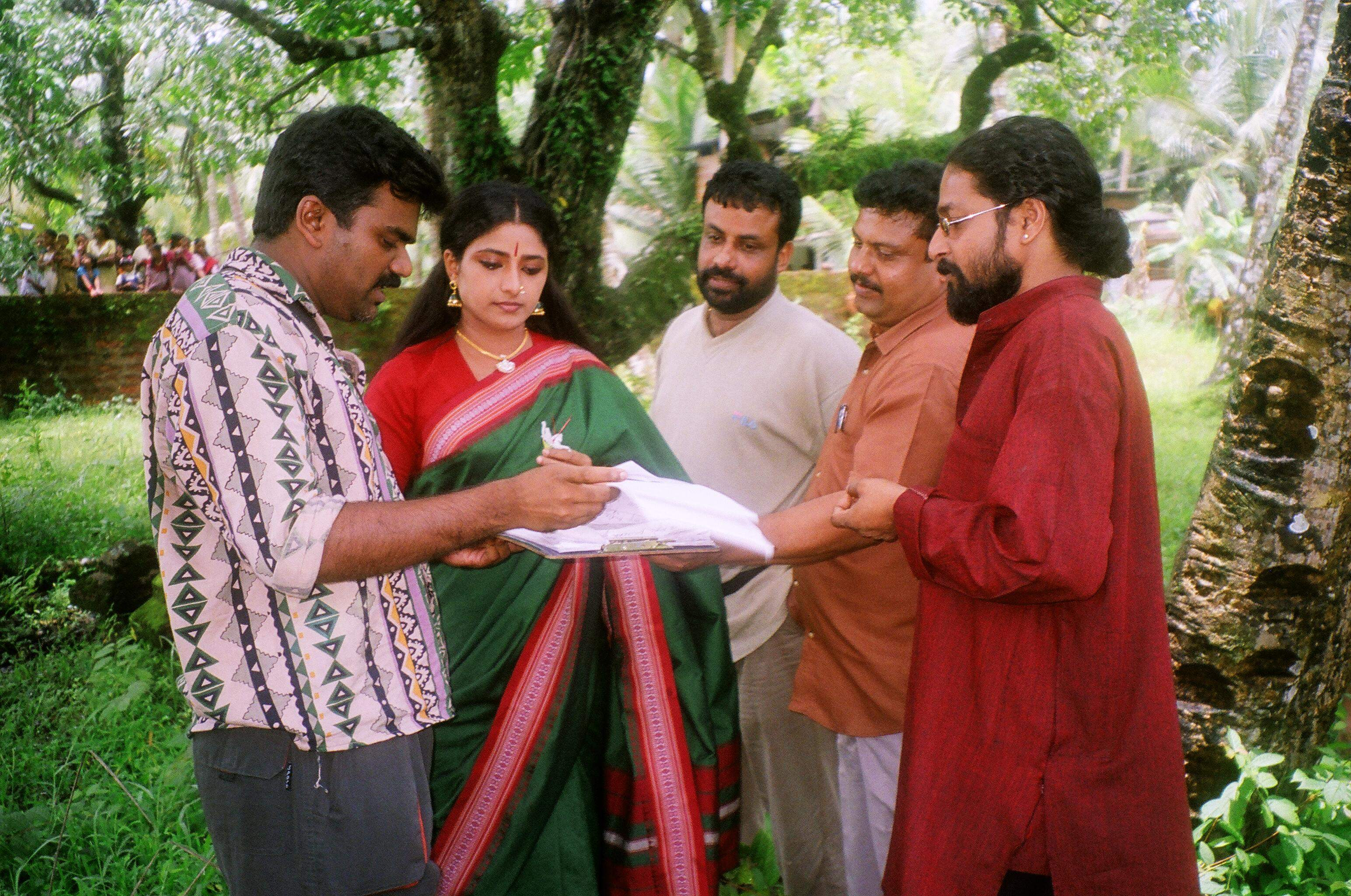 Director Sohanlal,Actress Praveena ,Cinematographer Udayan Ambady,Associate Director: Satheeshkumar and Art Director Rishi